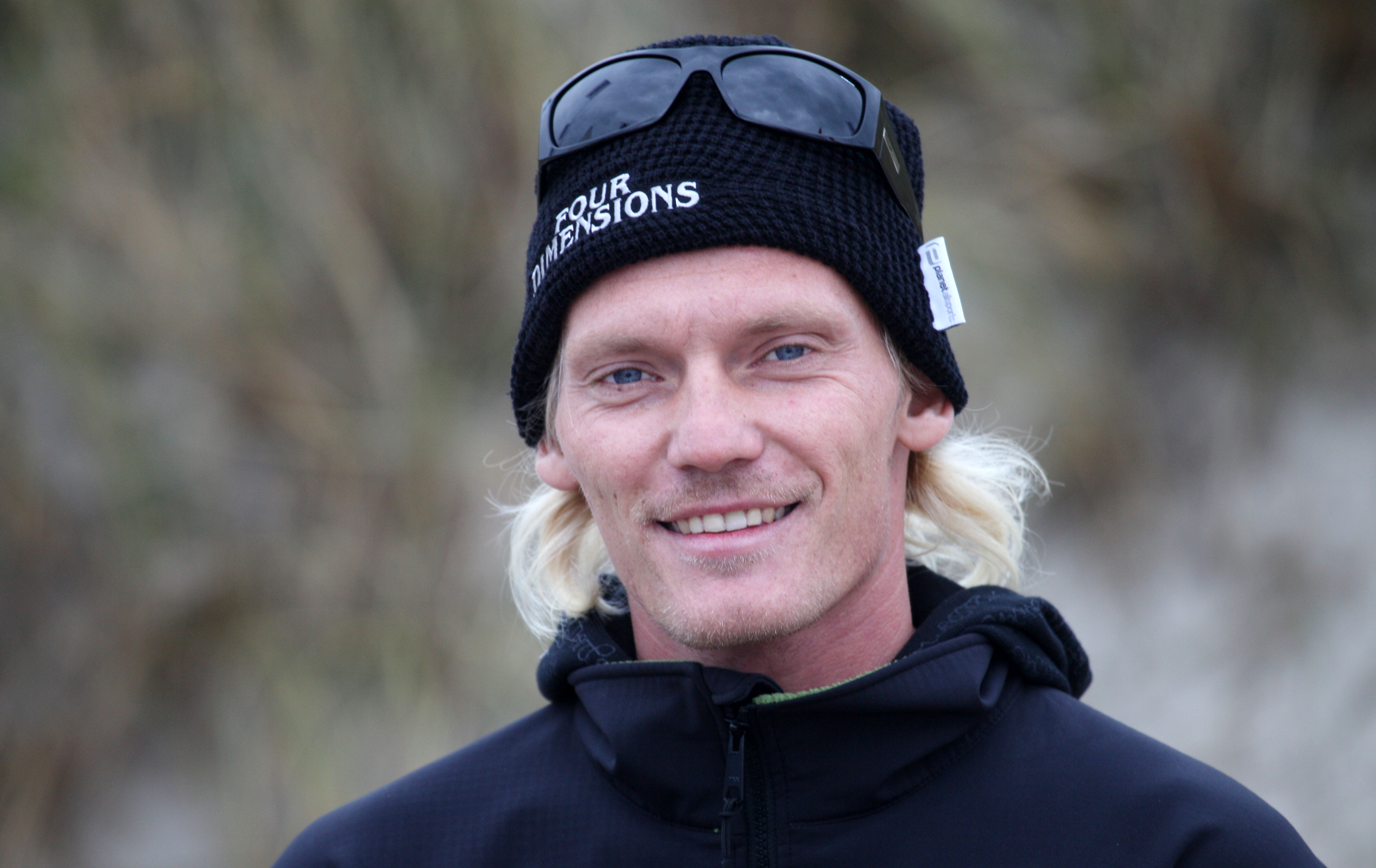 André Paskowski @ Windsurf World Cup Sylt 2009